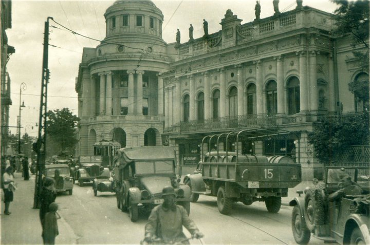 The old Lapusneanu Street, Iasi (Jassy), Romania, 1941